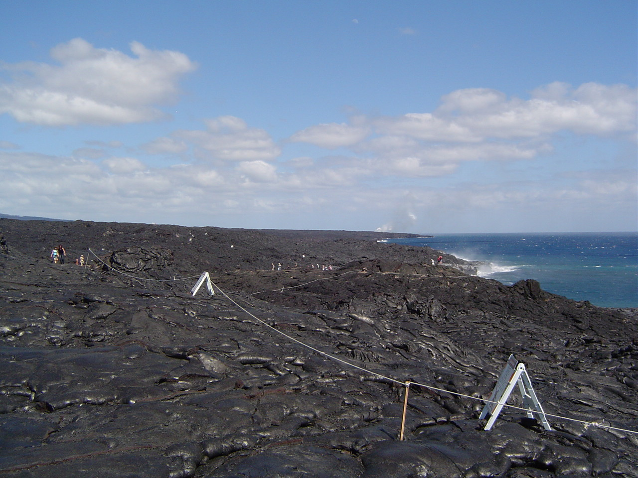 Walking across the lava flow, Big Island of Hawaii